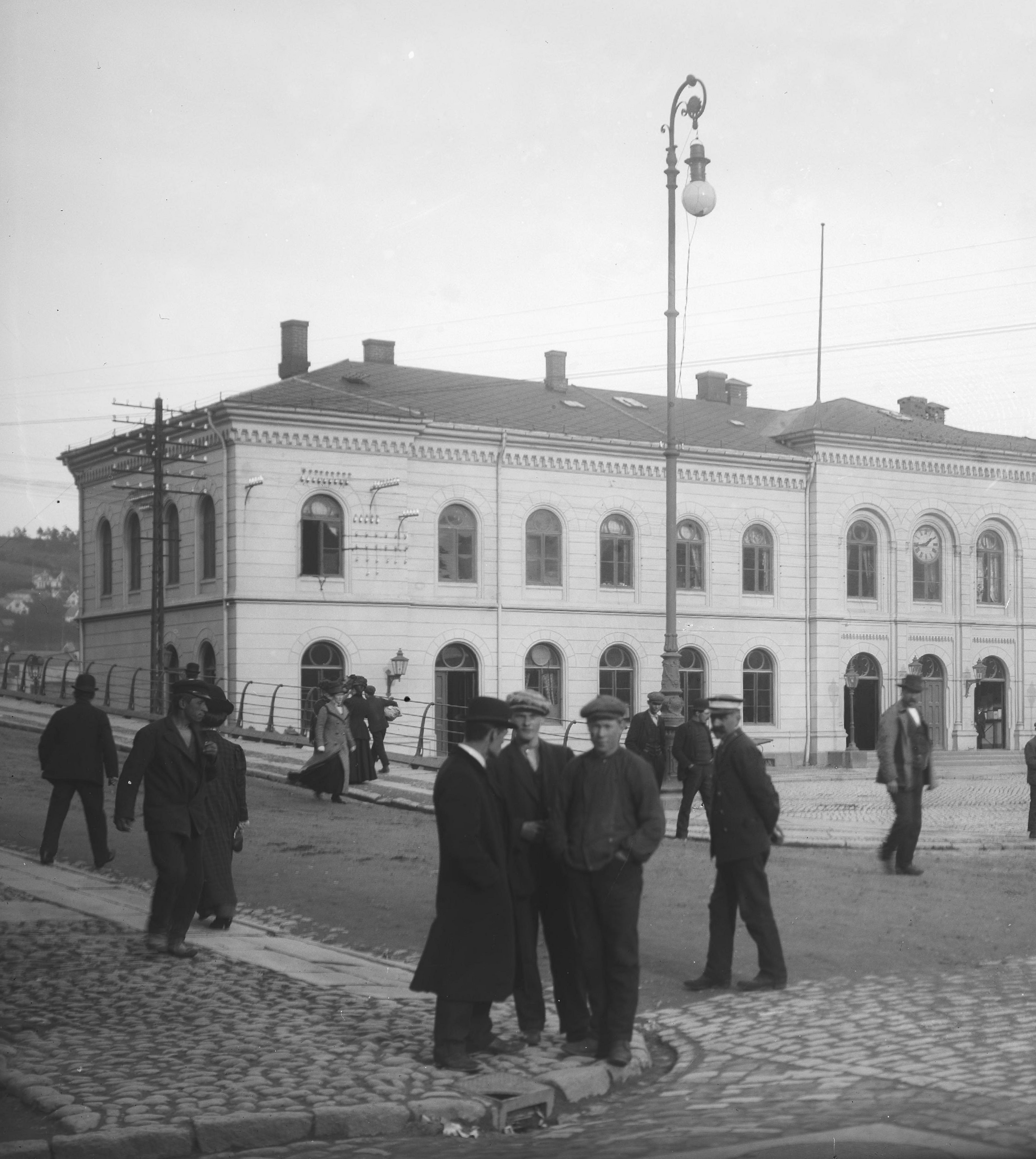 Drammen station prior to second floor expansion, between 1899 and 1920.